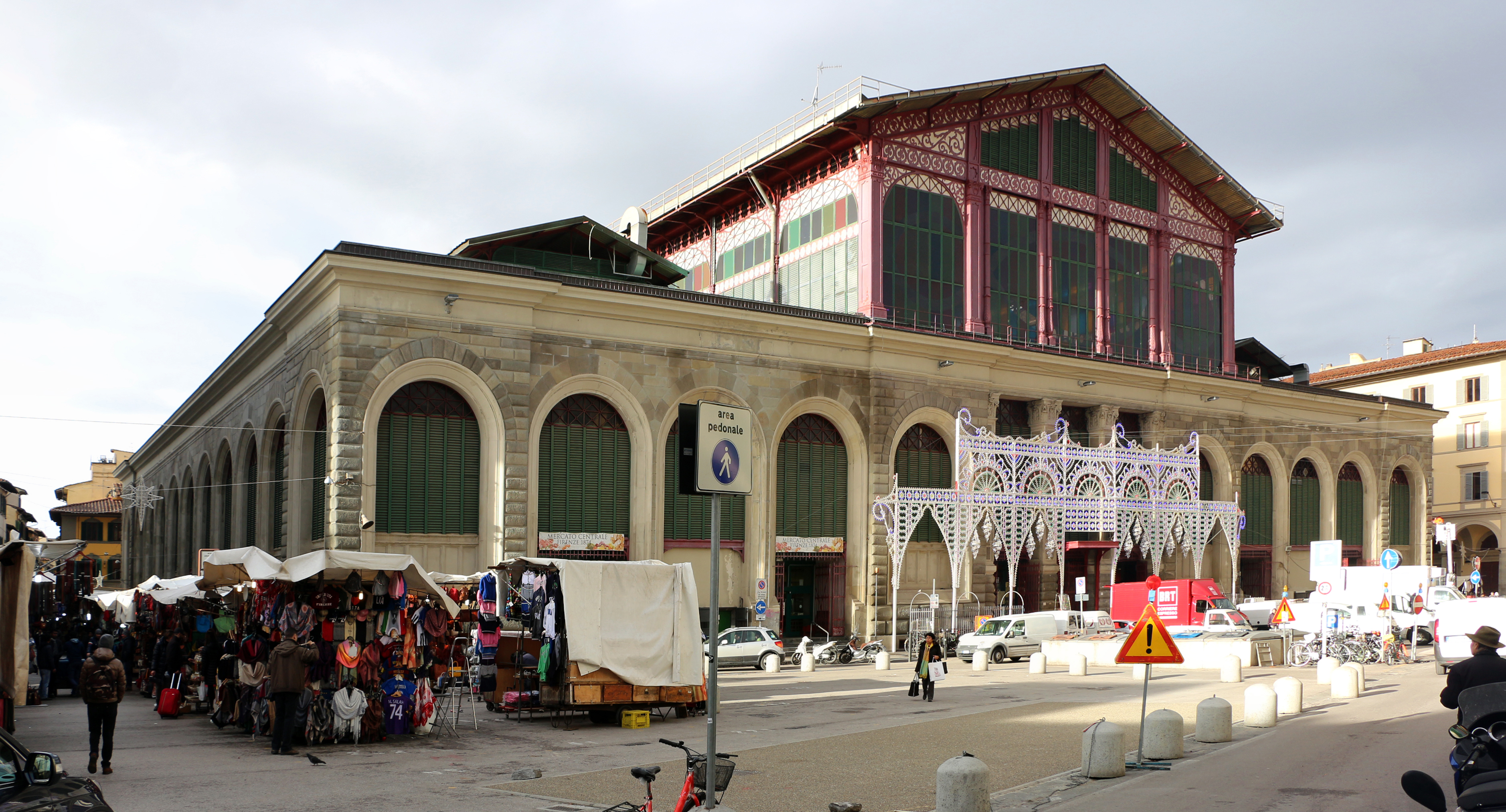 Firenze, miscellanea